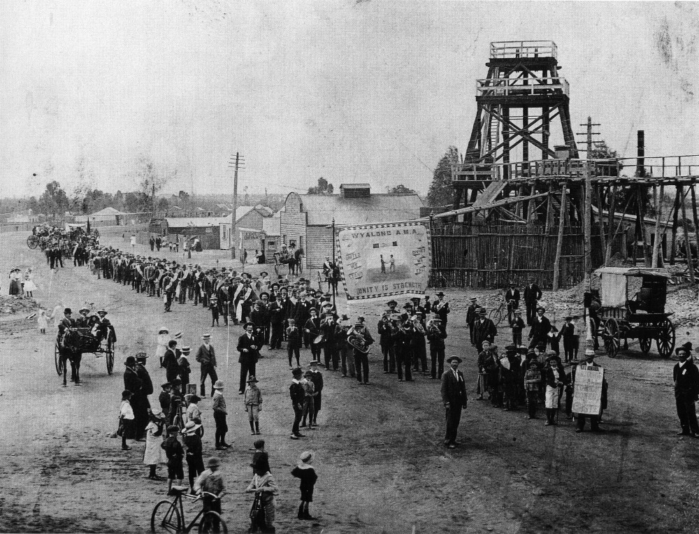 Wyalong eight-hour day march, late 1890s.